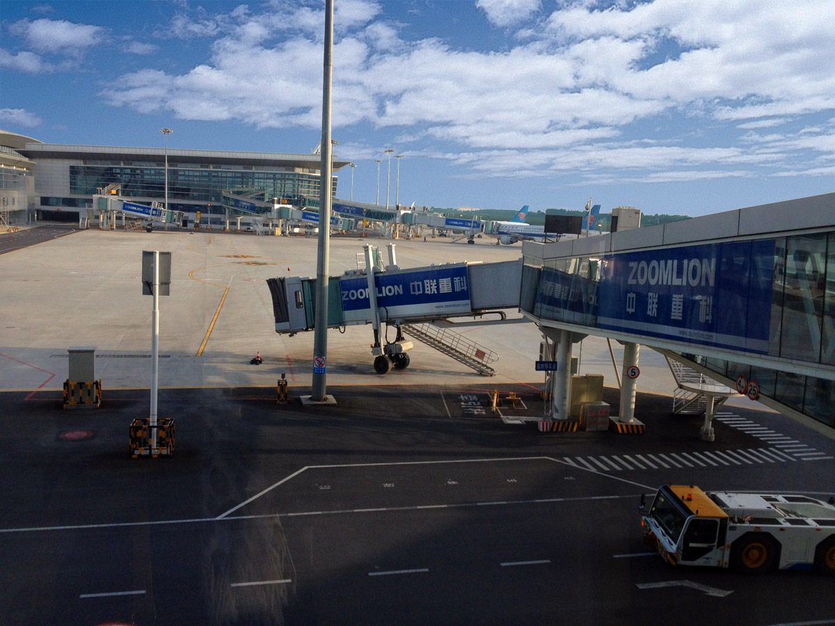 An vacant airbridge of Changsha Airport Terminal 2